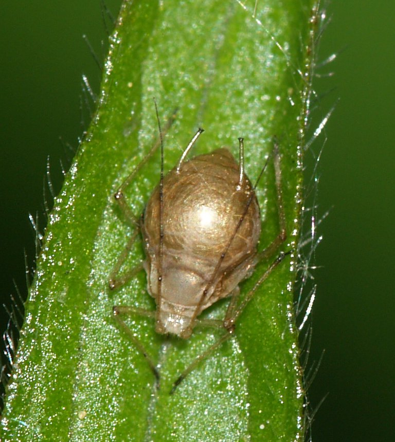 dead aphid, parasitized by Aphidiinae (Braconidae), from Cologne, Germany.